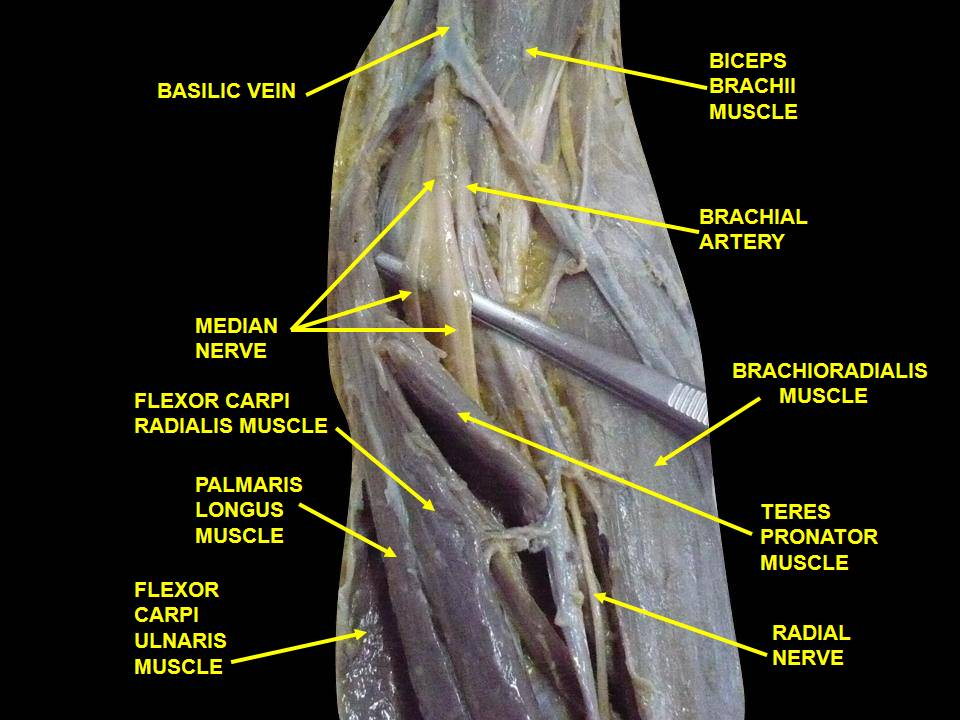 Anatomical dissections